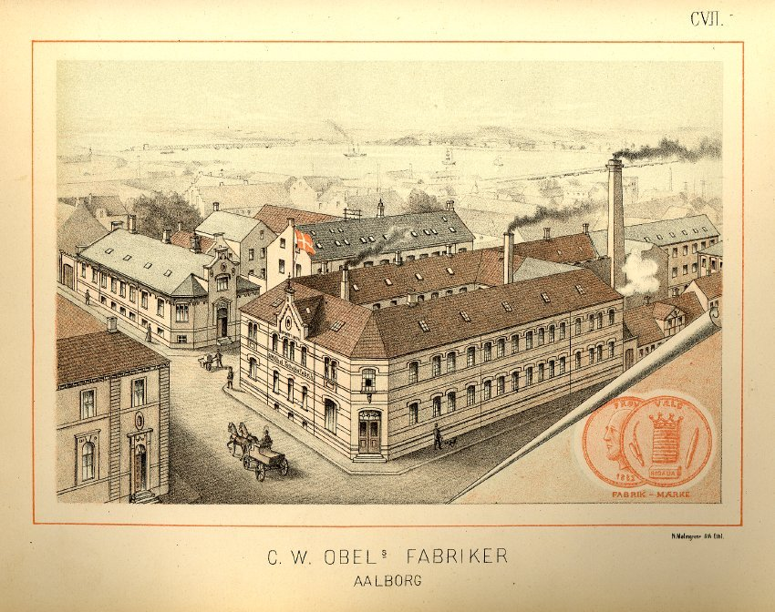 C. W. Obels Tobaks- og Cigarfabrik in Aalborg, Denmark